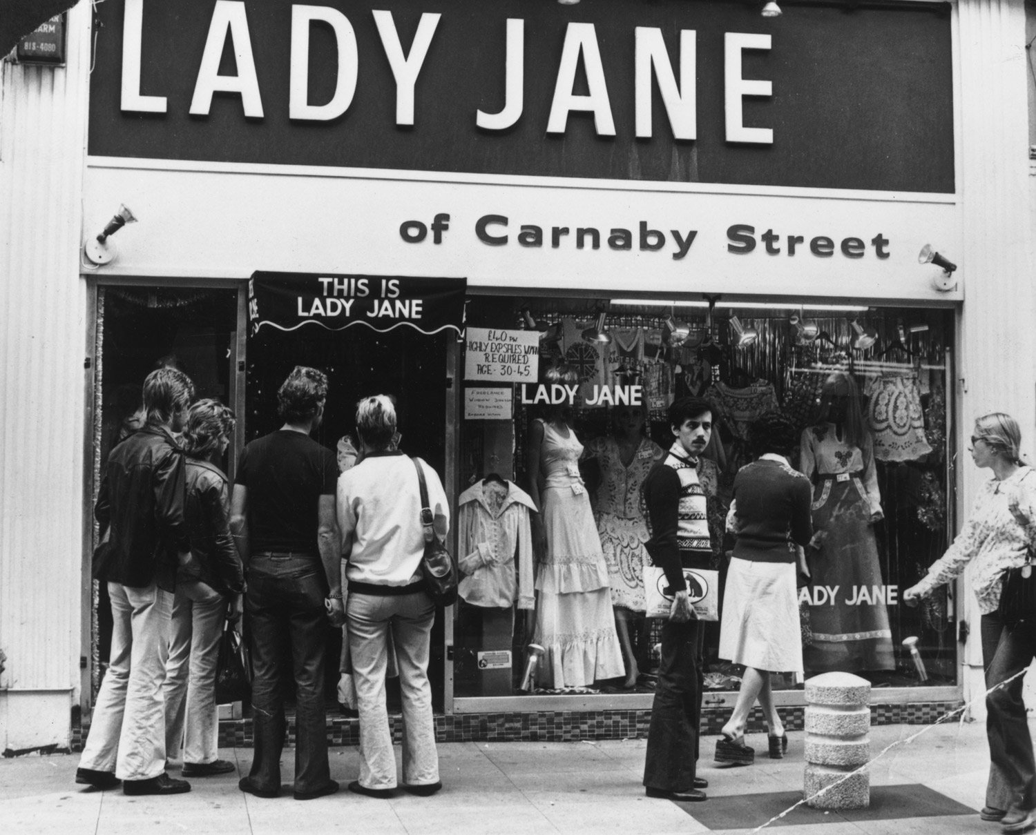 Image depicting the original lady Jane Boutique with sign stating Lady Jane of Carnaby Street, with customers queuing outside